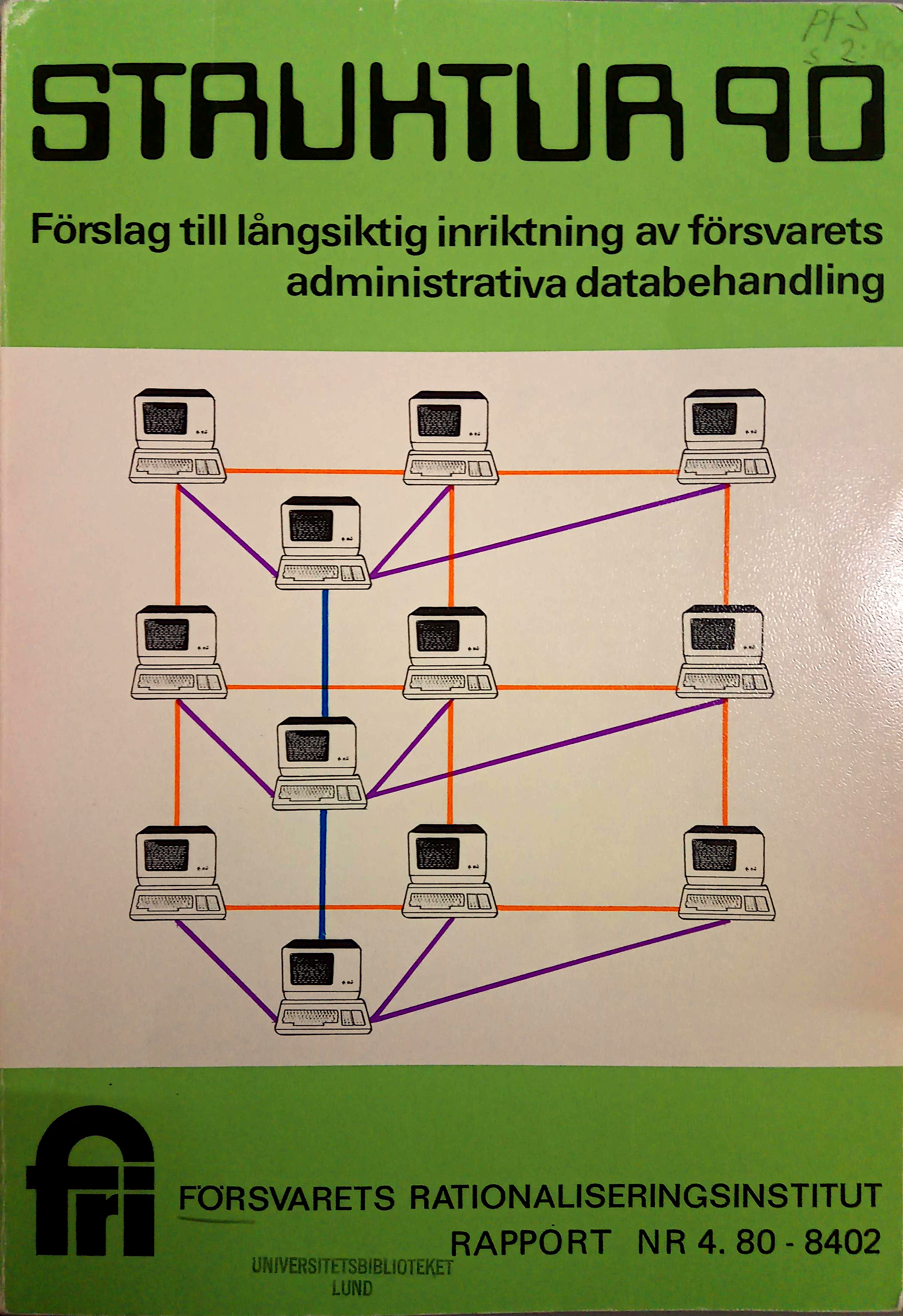 A report issued by Swedish defense rationalization institute 1980